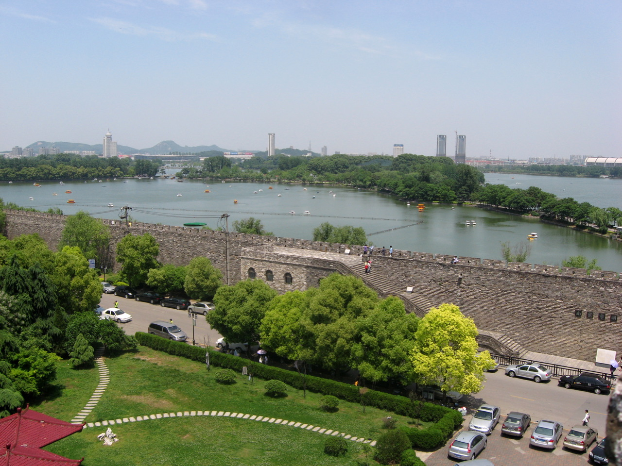 Xuan Wu Lake seen from Taicheng, the City wall of Nanjing